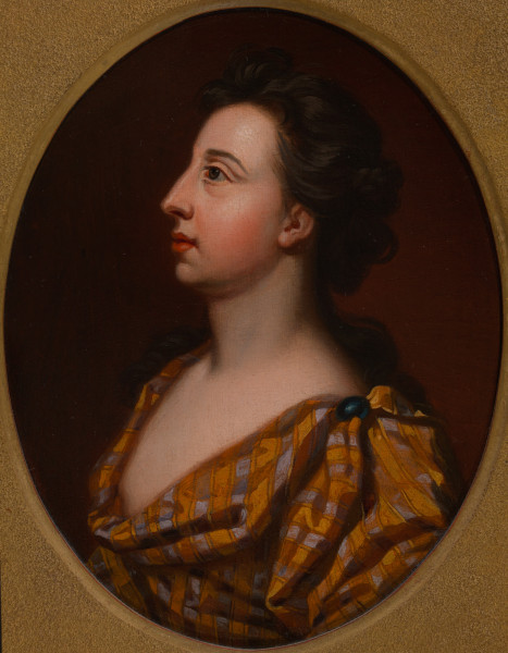 Elizabeth Barry copy after Sir Godfrey Kneller exhibited in 1833